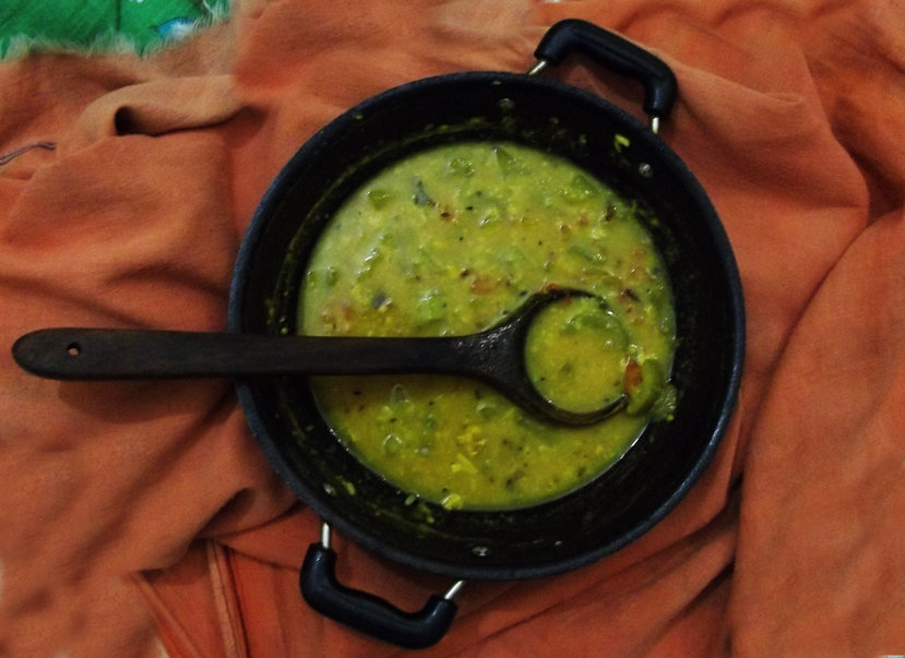 Dalama is a tradional Odia recipe prepared using lentils added with different vegetables by boiling and then frying with cumin, curry leaves, onion, garlic-ginger paste, tomato, etc. ଓଡ଼ିଆ: ଡାଲମା ଏକ ପାରମ୍ପାରିକ ଓଡ଼ିଆ ରାନ୍ଧଣା ଯେଉଁଥିରେ ଡାଲିକୁ ପରିବା ସହିତ ସିଝାଯାଇ ତାହାକୁ ଜିରା, ଫୁଟଣ, ଭୃଷଙ୍ଗ ପତ୍ର, ବିଲାତି ବାଇଗଣ, ପିଆଜ, ରସୁଣ ଅଦା ଆଦି ଦେଇ ଛୁଙ୍କ ଦେଇ ତିଆରି କରାଯାଏ ।